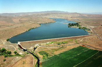 Bully Creek Dam is located on Bully Creek about 8 miles northwest of the creek's confluence with the Malheur River, and 9 miles northwest of Vale, Oregon. The dam is a zoned earthfill structure with a crest length of 3,070 feet and total height of 121 feet